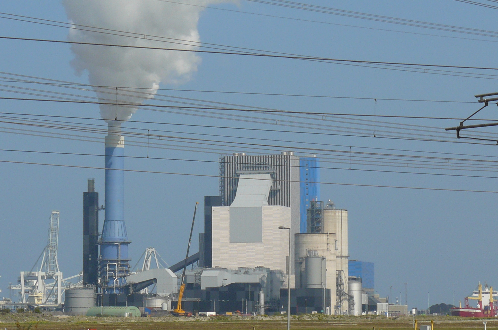 GDF Suez coal/biomass power plant in Rotterdam